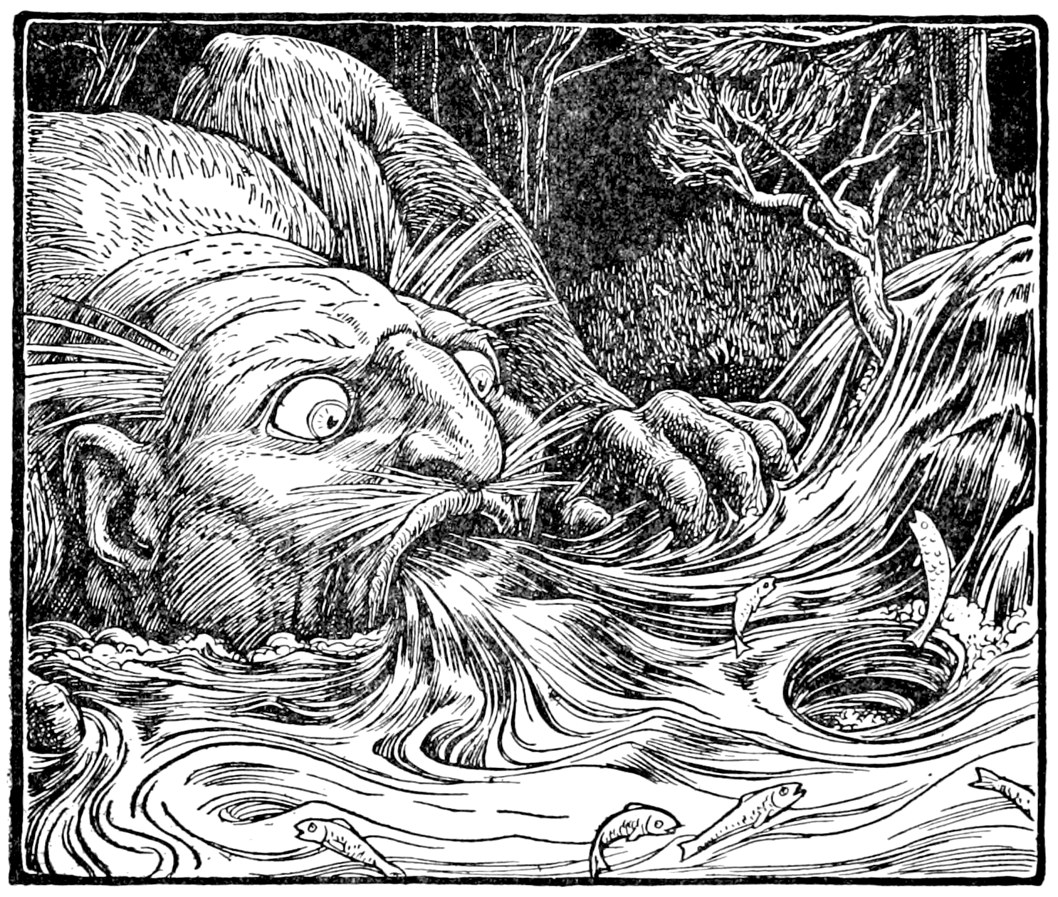 Illustration from a book of fairy tales from Europe, translated into english